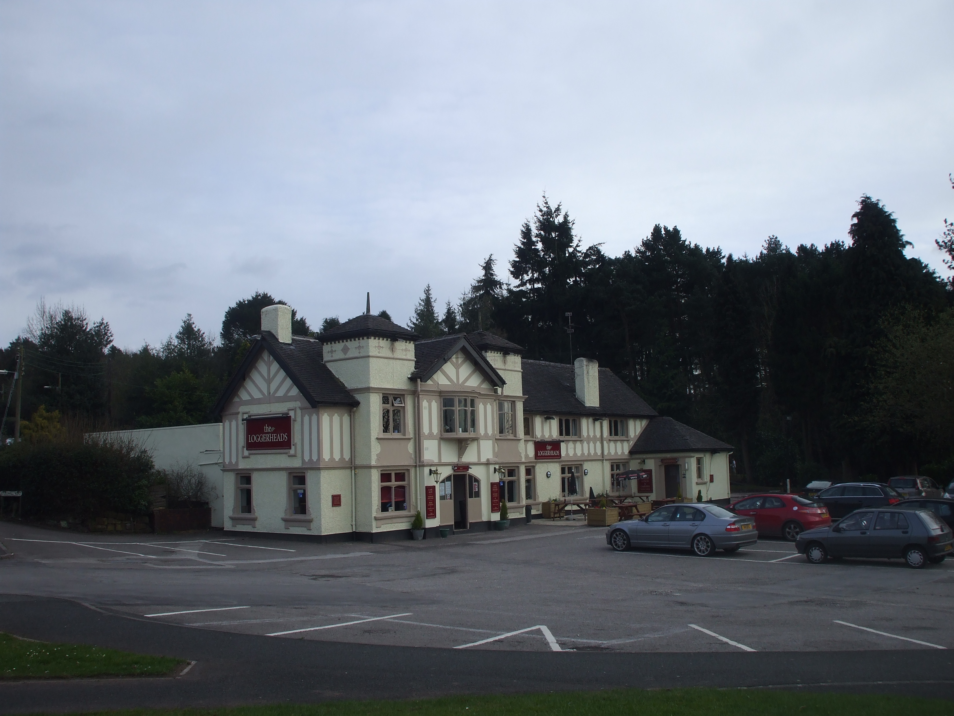 The Loggerheads, Loggerheads